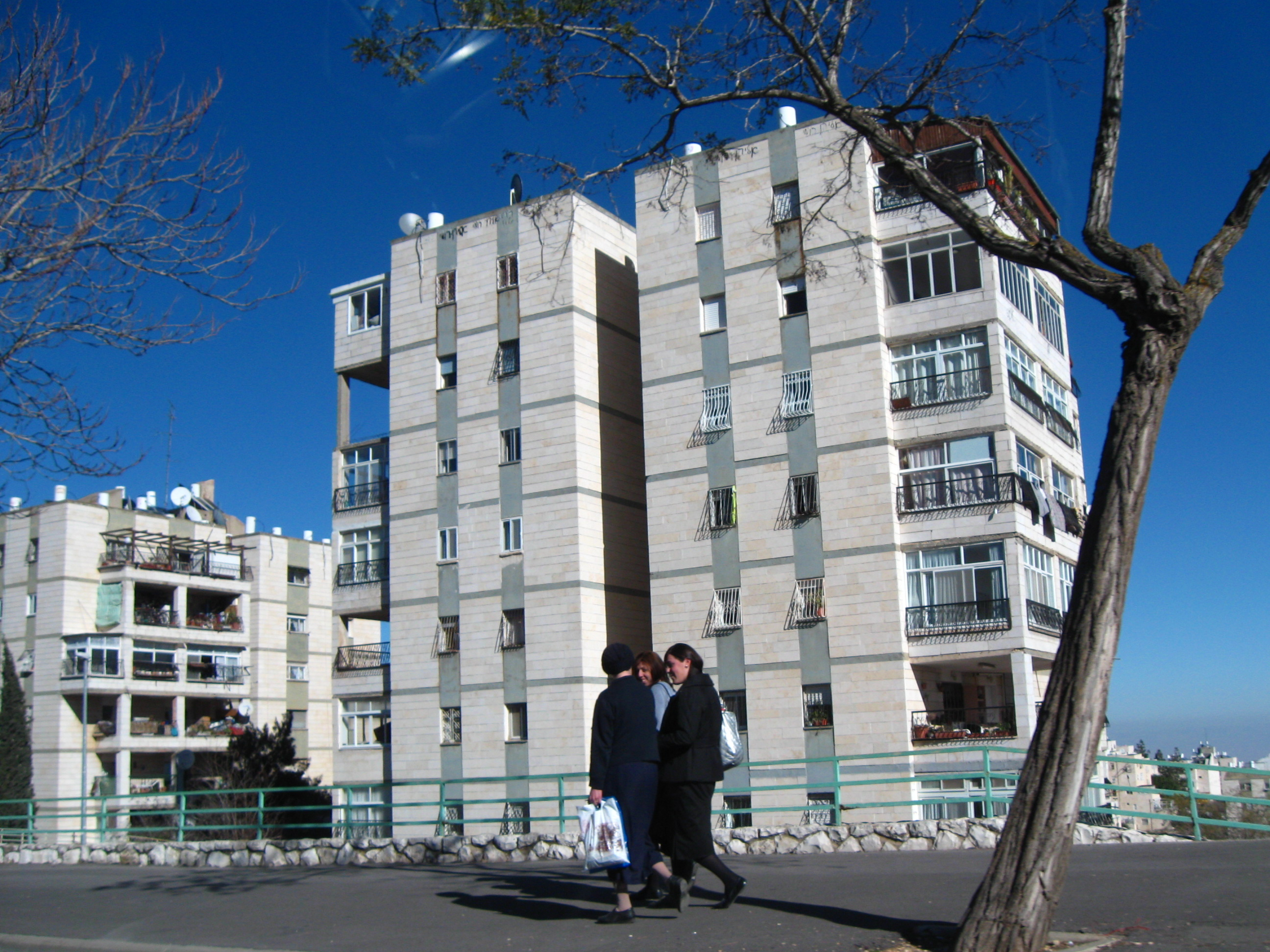 High-rise apartment buildings along Neve Yaakov Blvd.